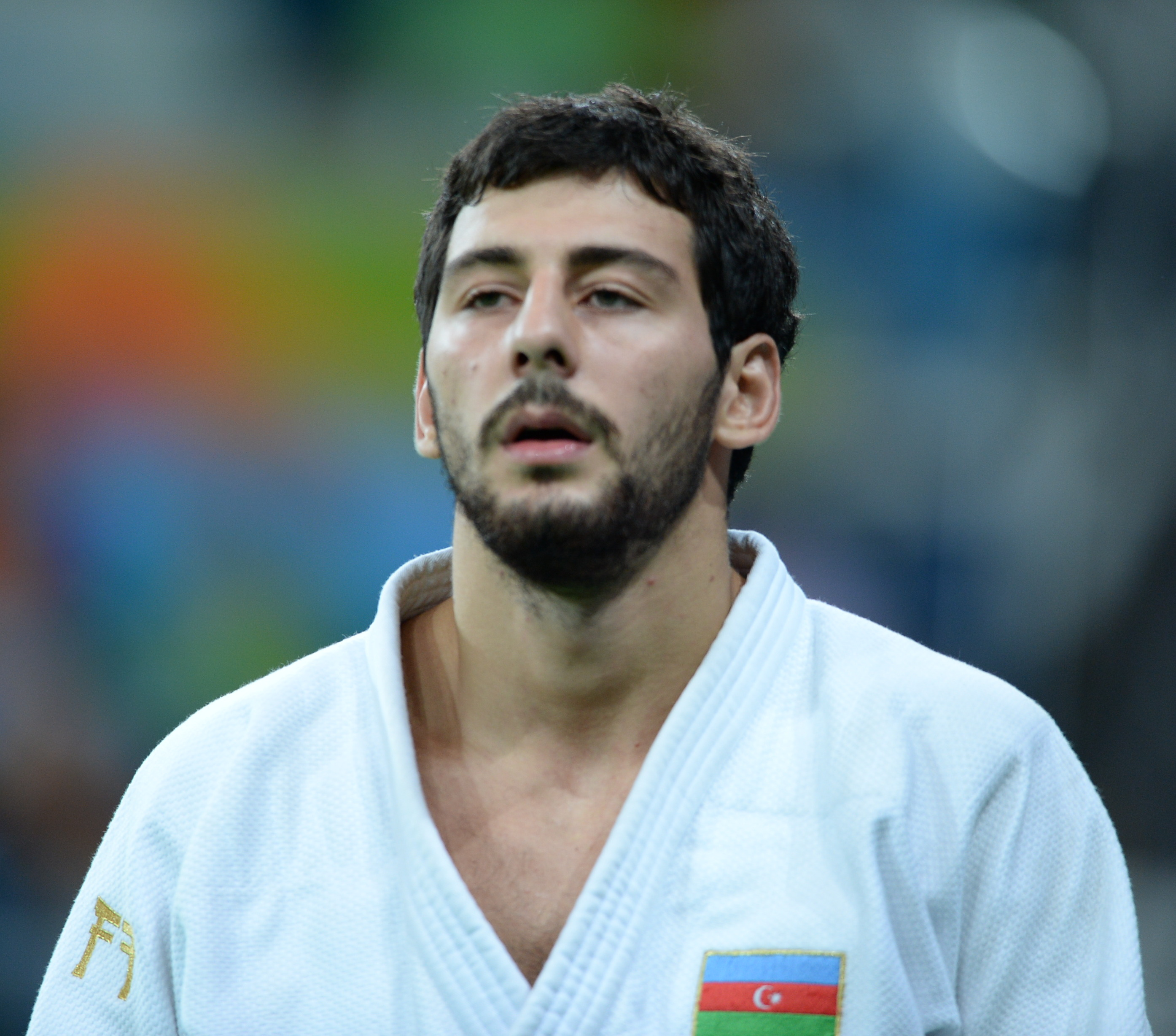 Judo at the 2016 Summer Olympics, Mehdiyev vs Camilo